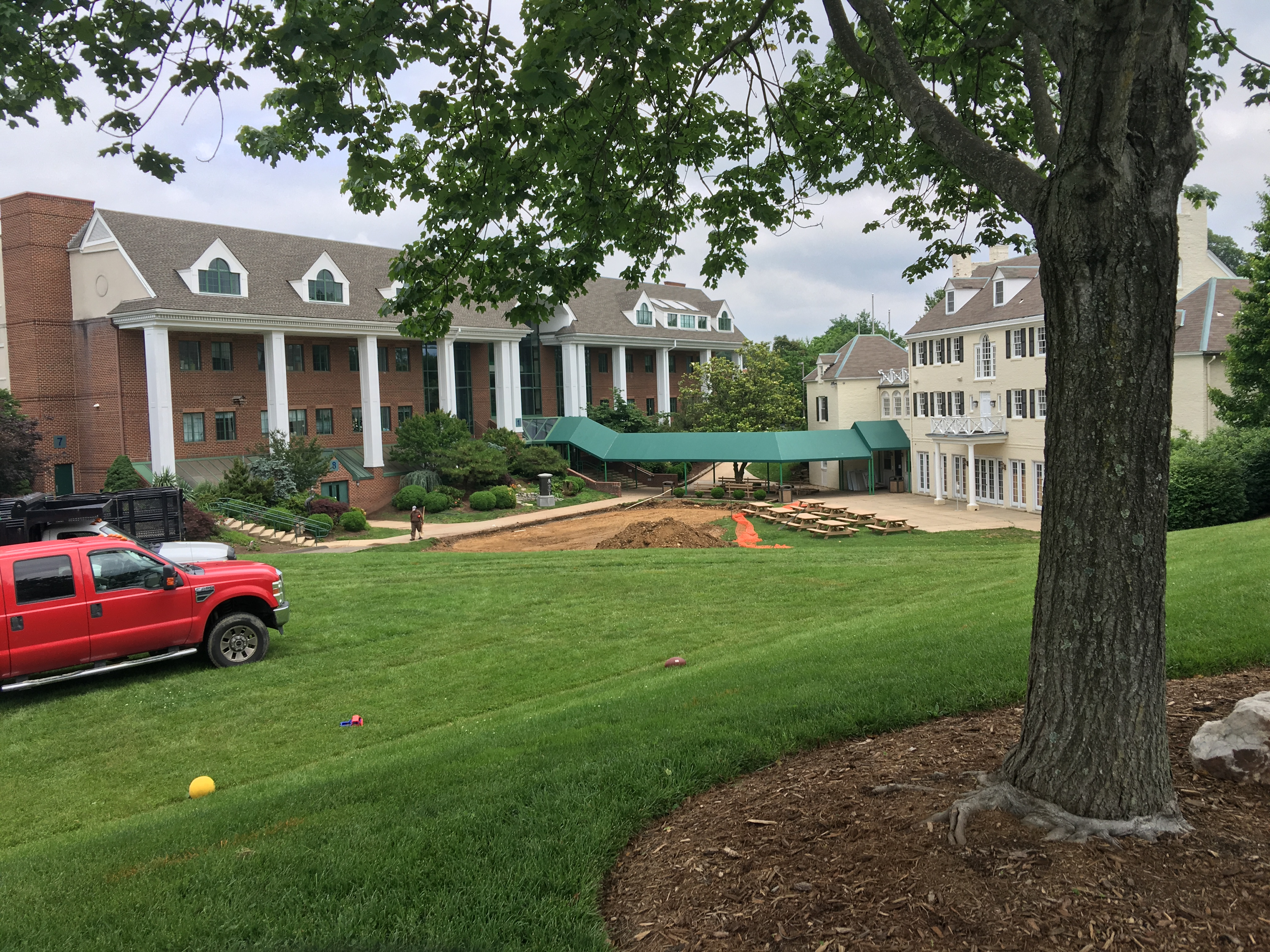 Construction taking place at the Flint Hill Lower and Middle School campus.